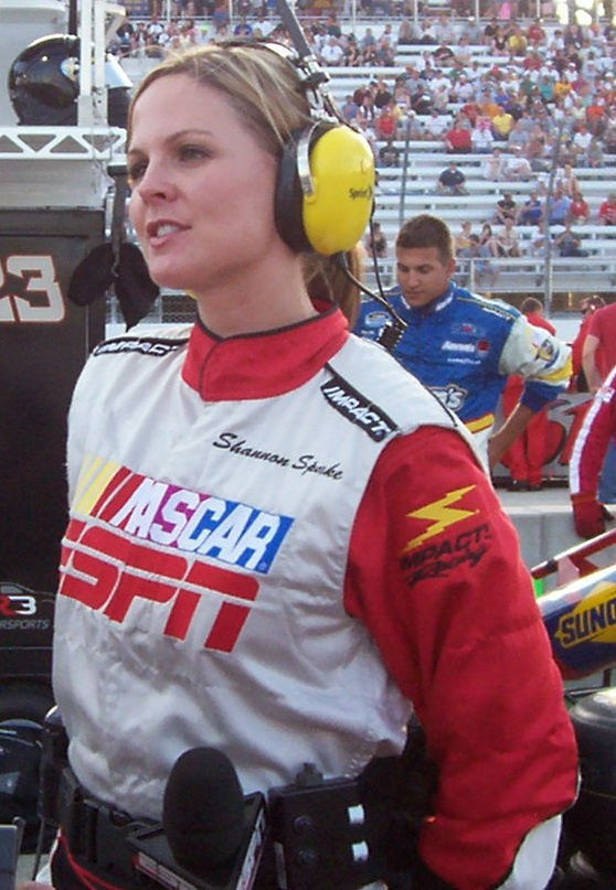 ESPN pit road reporter Shannon Spake at the NASCAR Nationwide Series event at the Milwaukee Mile.